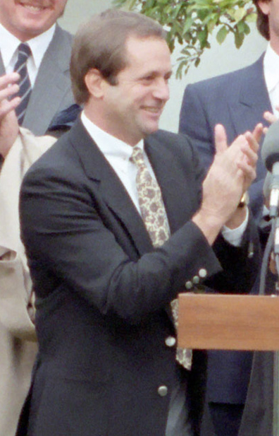 President Reagan Receives a Royals Jacket, Hat and Bat from Manager Dick Howser during a Ceremony to Congratulate the 1985 World Series Champion Kansas City Royals Baseball Team in the Rose Garden, 10/31/1985